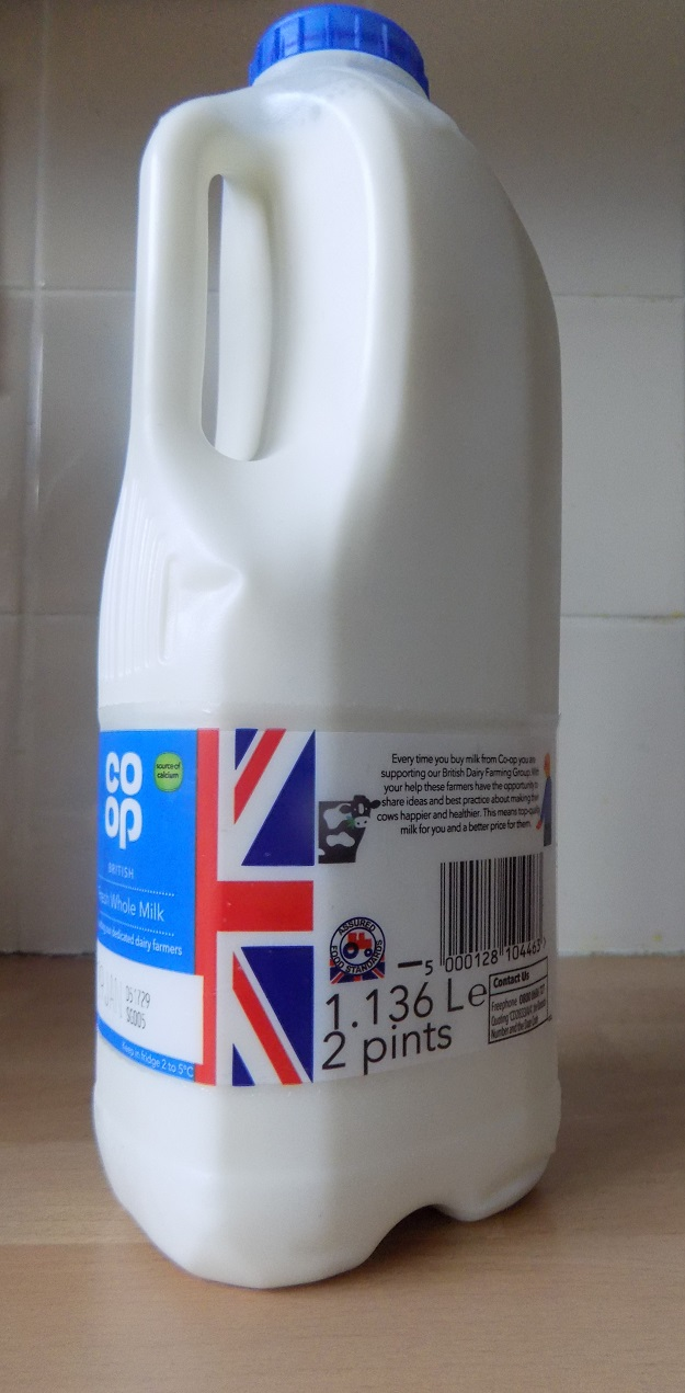 A common milk container in the UK, displaying metric in addition to imperial fluid measurements